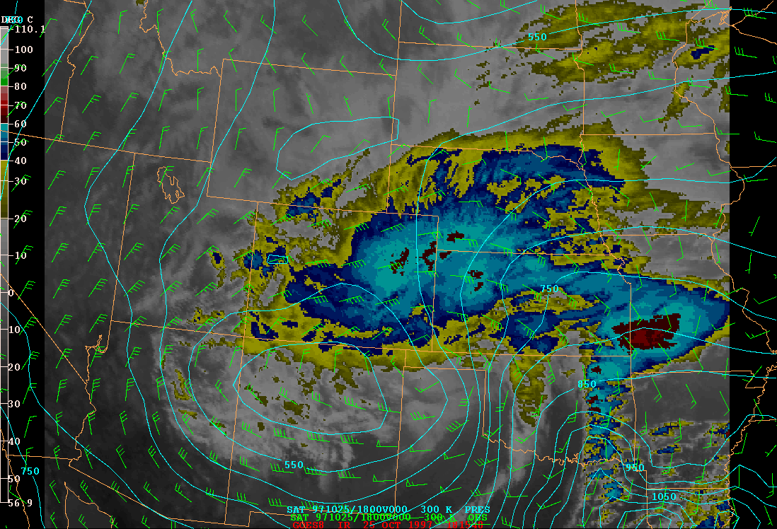 On October 24 , 1997, 1800 UTC the blizzard was affecting Colorado. The surface low remained nearly stationary over southern Kansas and the 500 mb low slowly moved east. Strong winds continued over the southeast plains resulting from the strong pressure gradient. Winds gusted to over 50 knots over the plains. This Isentropic analyses was showing a strong upglide over southeast Colorado.